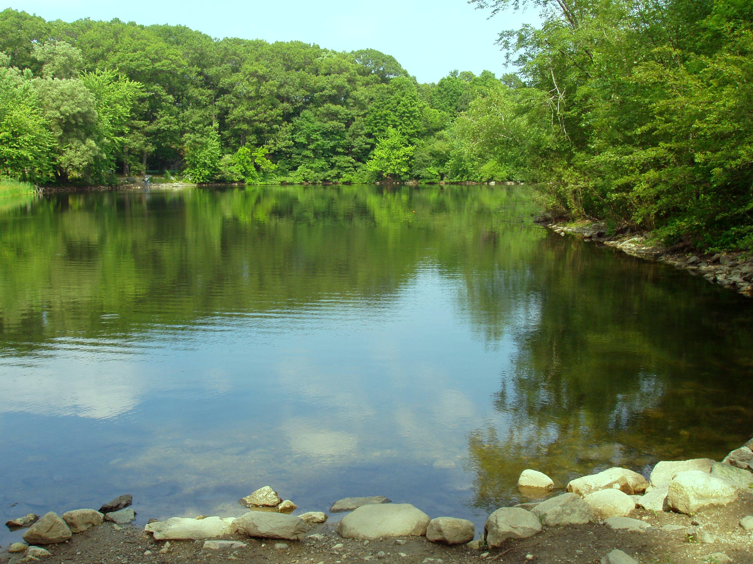 Hill's Pond, Menotomy Rocks Park, Arlington, Massachusetts. The pond was created in 1884 and the park in 1896.